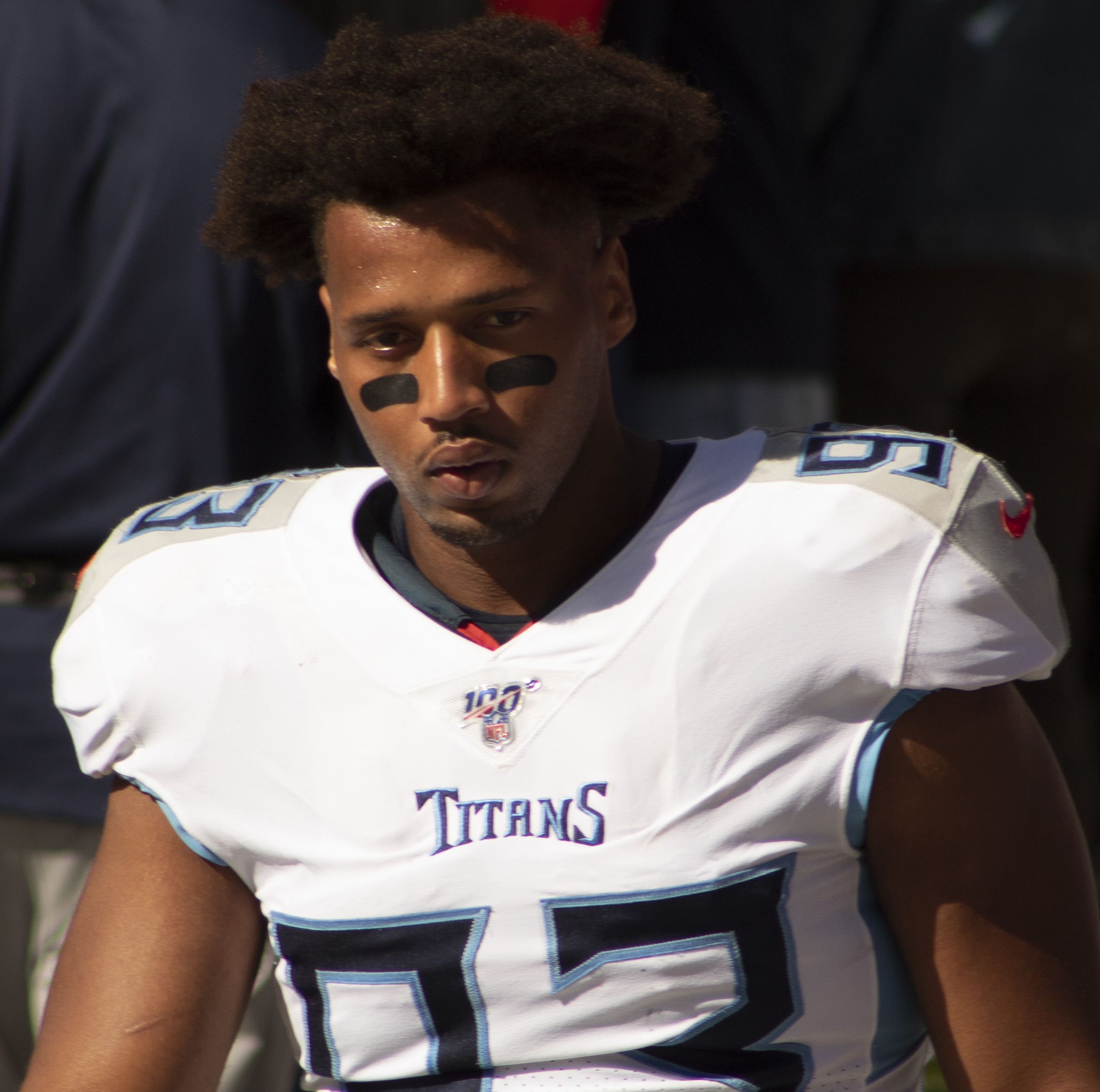 Reggie Gilbert with the Tennessee Titans on October 13, 2019